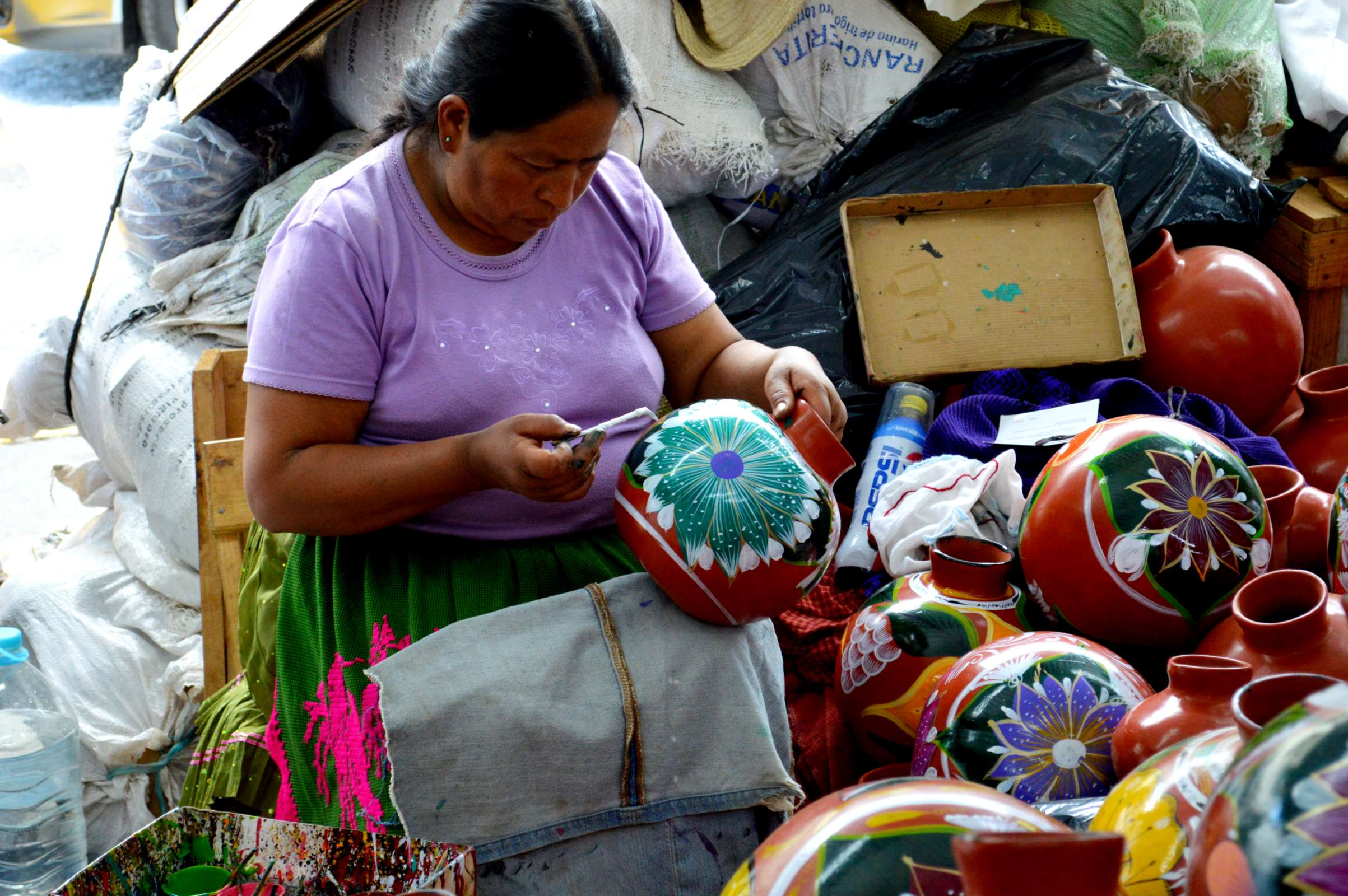 Woman painting pottery for sale at the Tianguis de Domingo de Ramos in Uruapan, Michoacan, Mexico